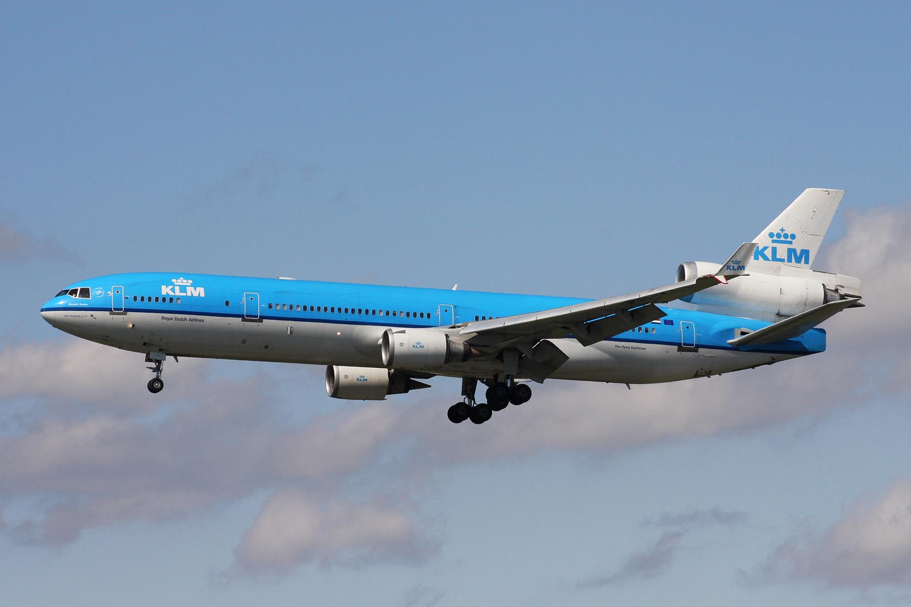 A picture of an airplane (name of it is on the file name).